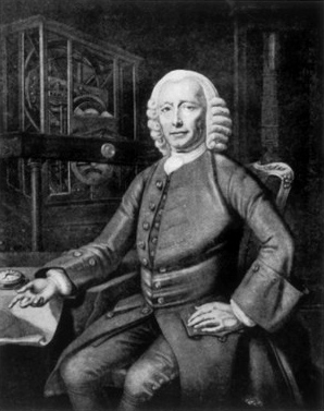 Portrait of John Harrison (1693-1776), English clockmaker